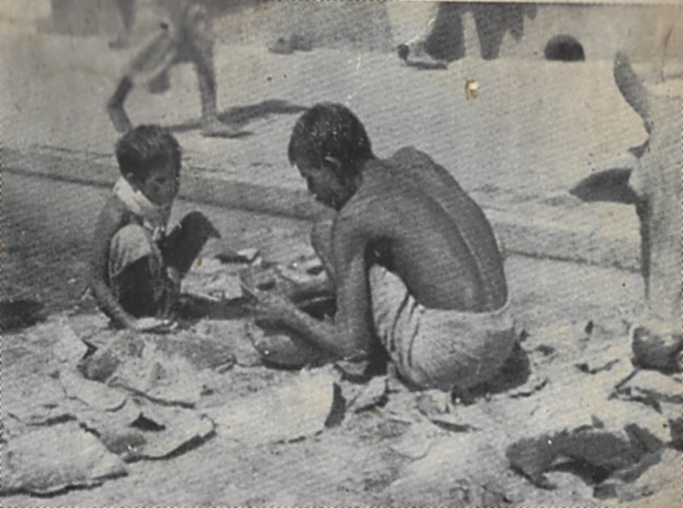 A father, his young son, and a cow rummaging for scraps of food on the street during the Bengal famine 1943. The photo caption says, "destitute peasants lived on scrappings from drains. Bad food killed lakhs of people."